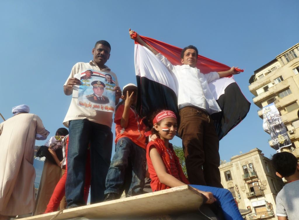 Many of those who rallied in Tahrir Square brought their families and children, July 7, 2013.